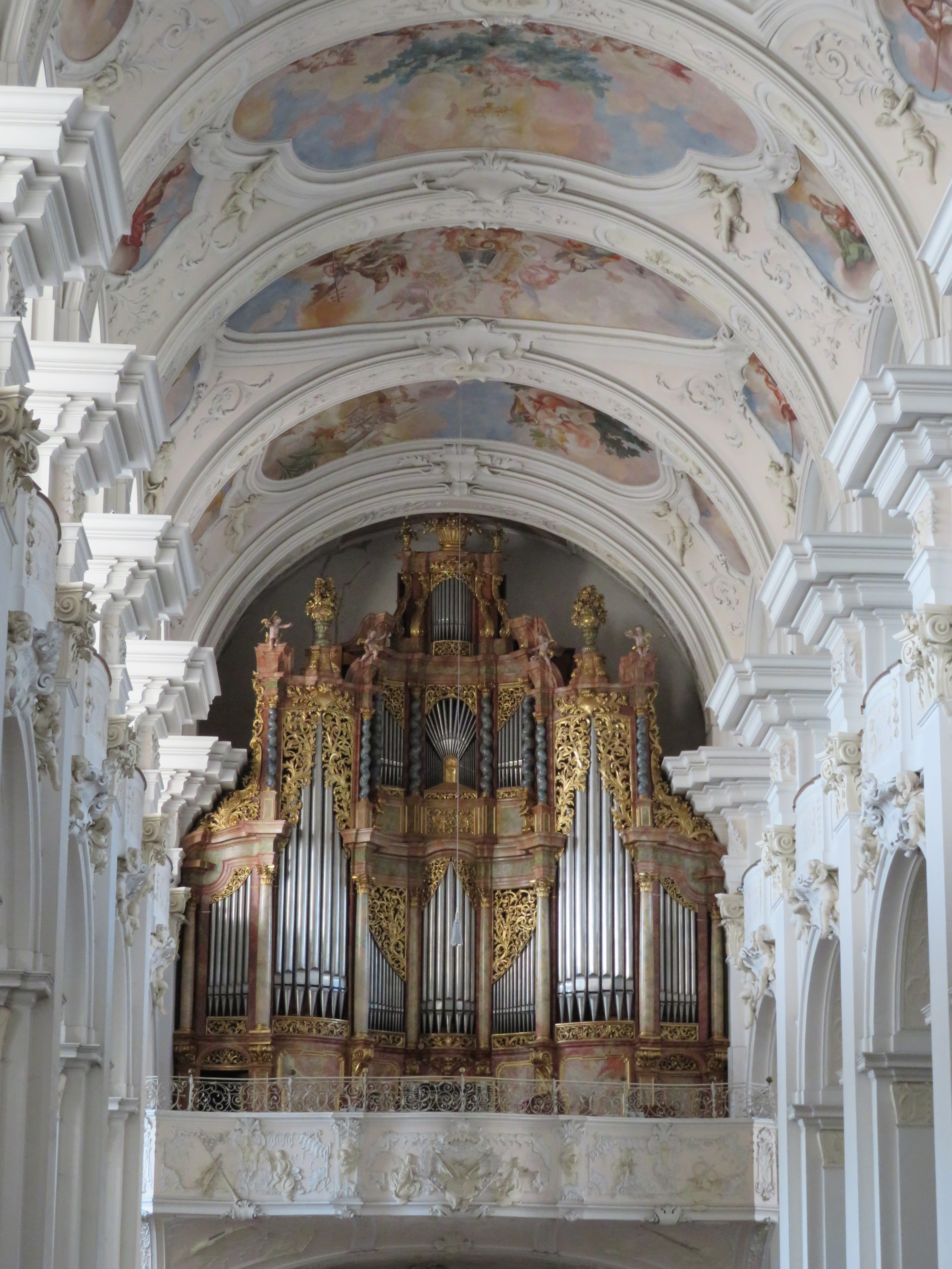 This is a photograph of an architectural monument.